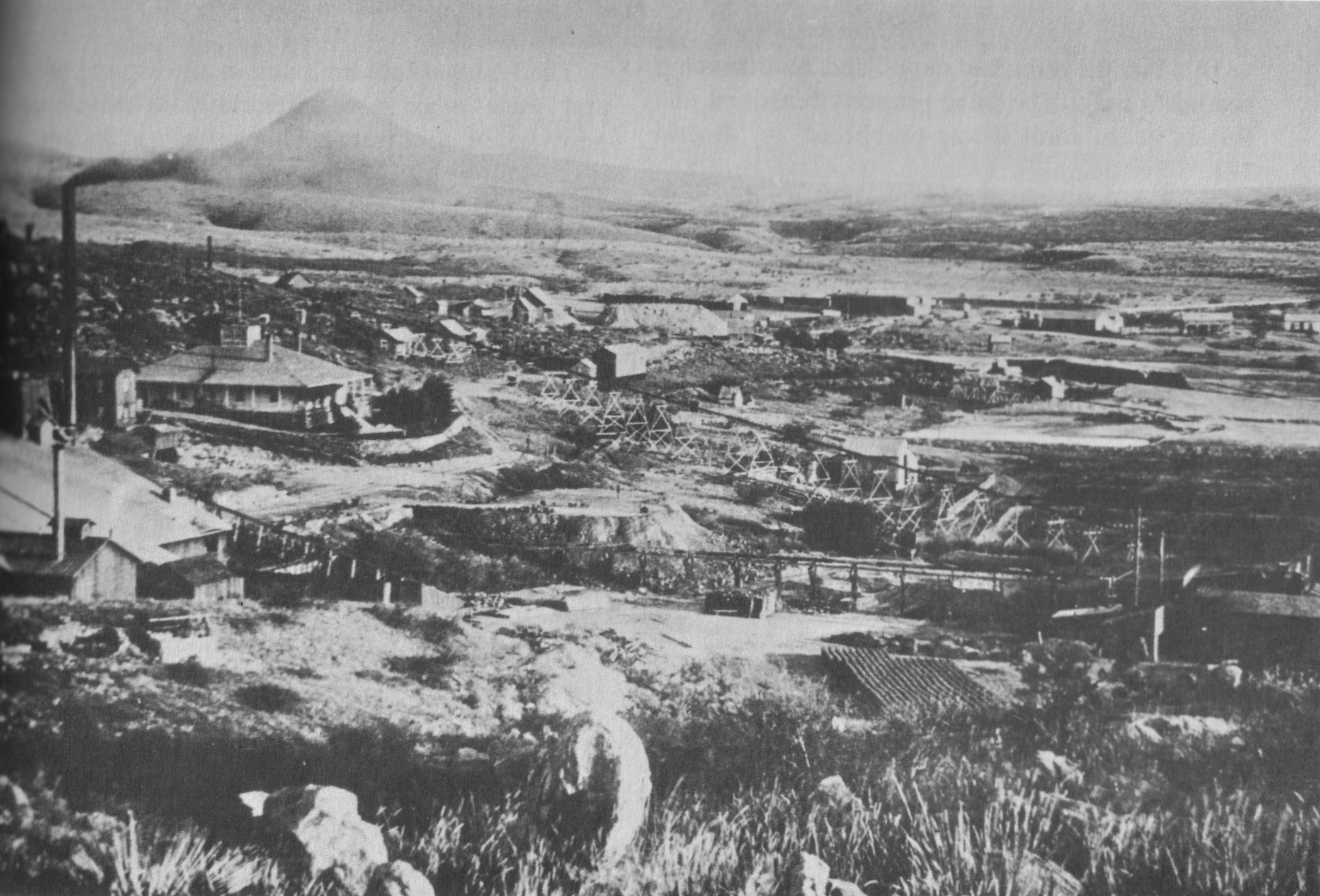 Millville, Arizona in 1879.